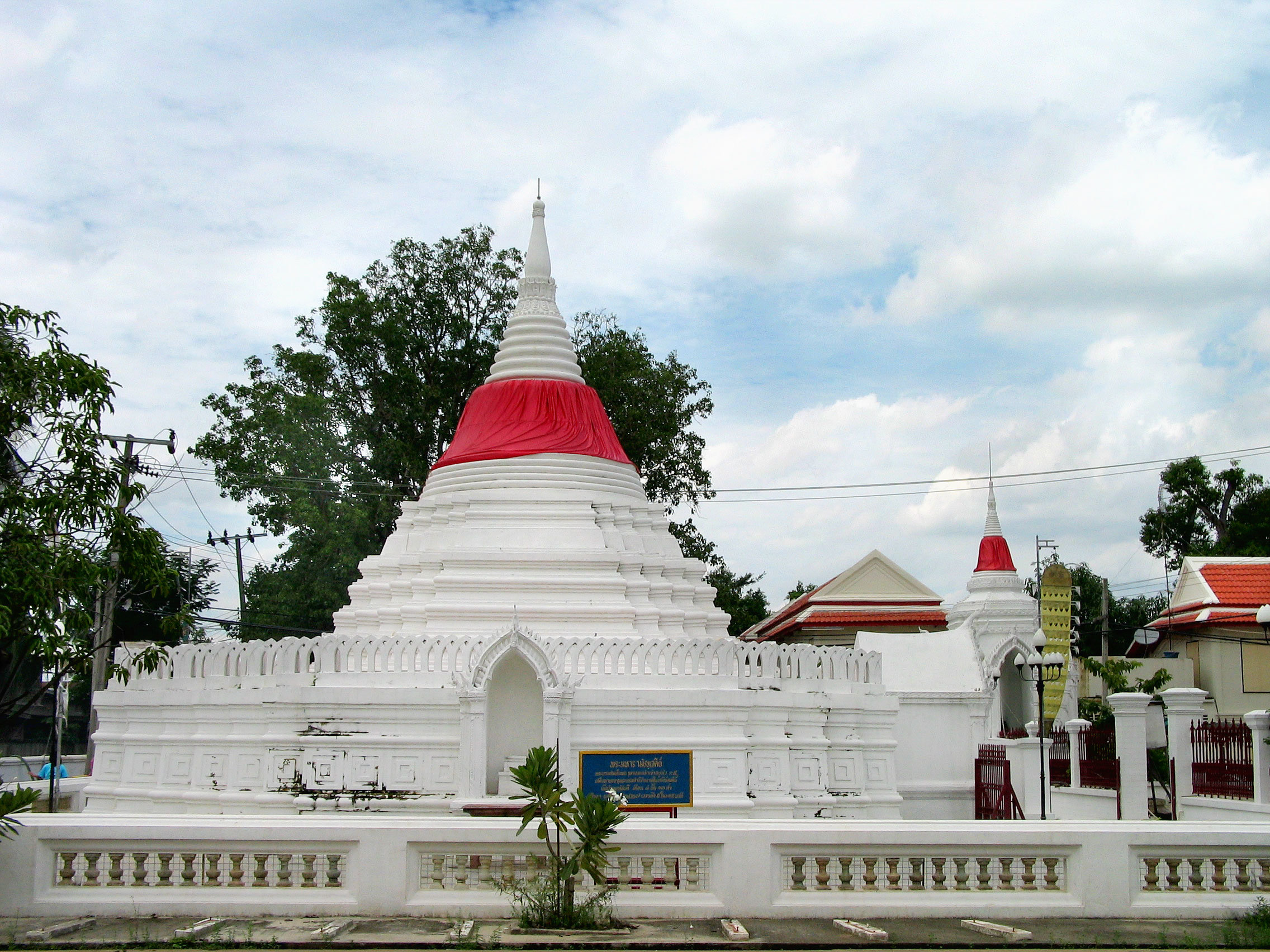 Wat Paramaiyikawat Worawihan, Ko Kret, Pak Kret district, Nonthaburi